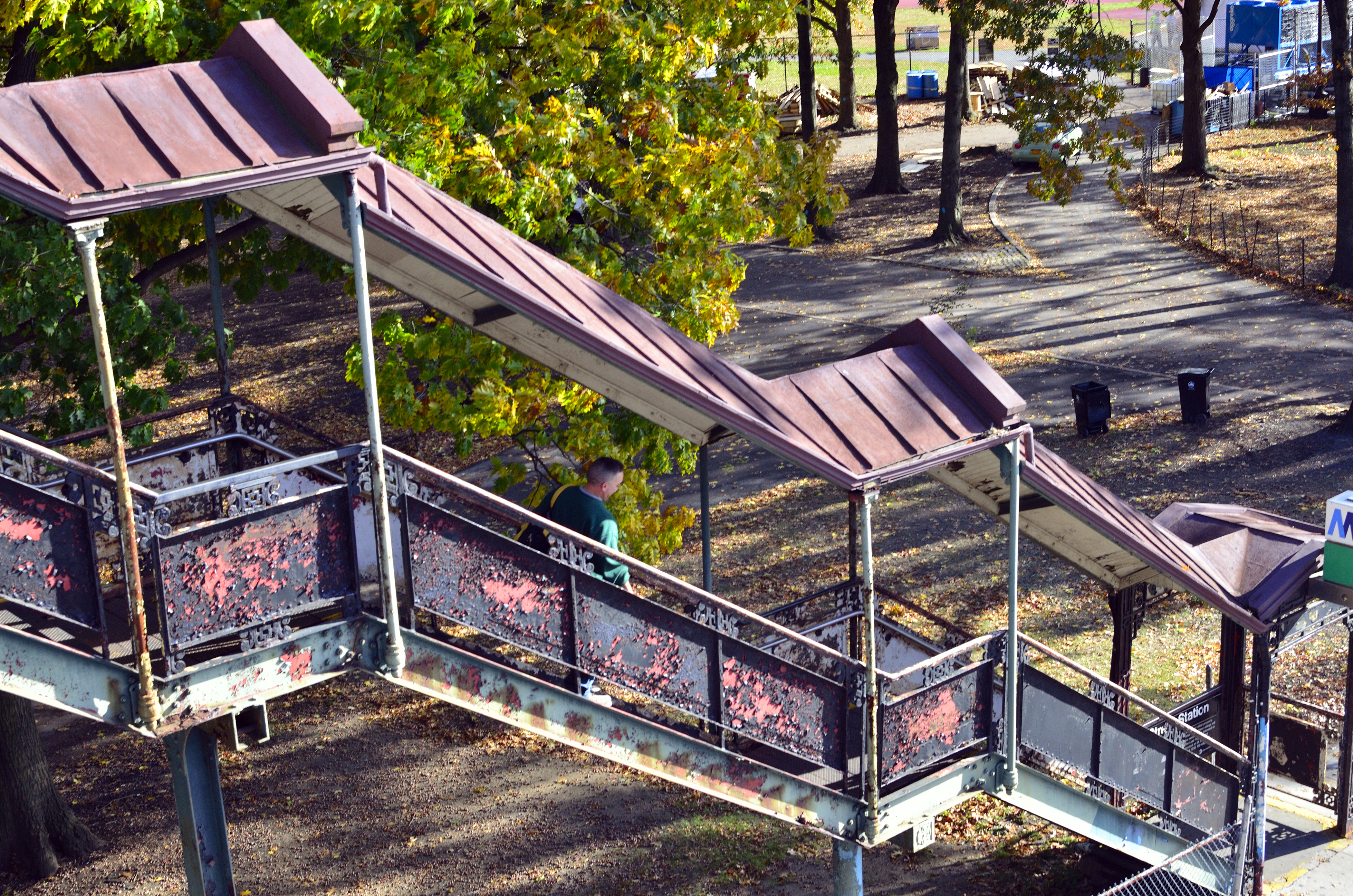 November 1, 2013 Van Cortlandt Park Bronx, NY Stairway at the 242nd St station of the 1 train (the end of the line)